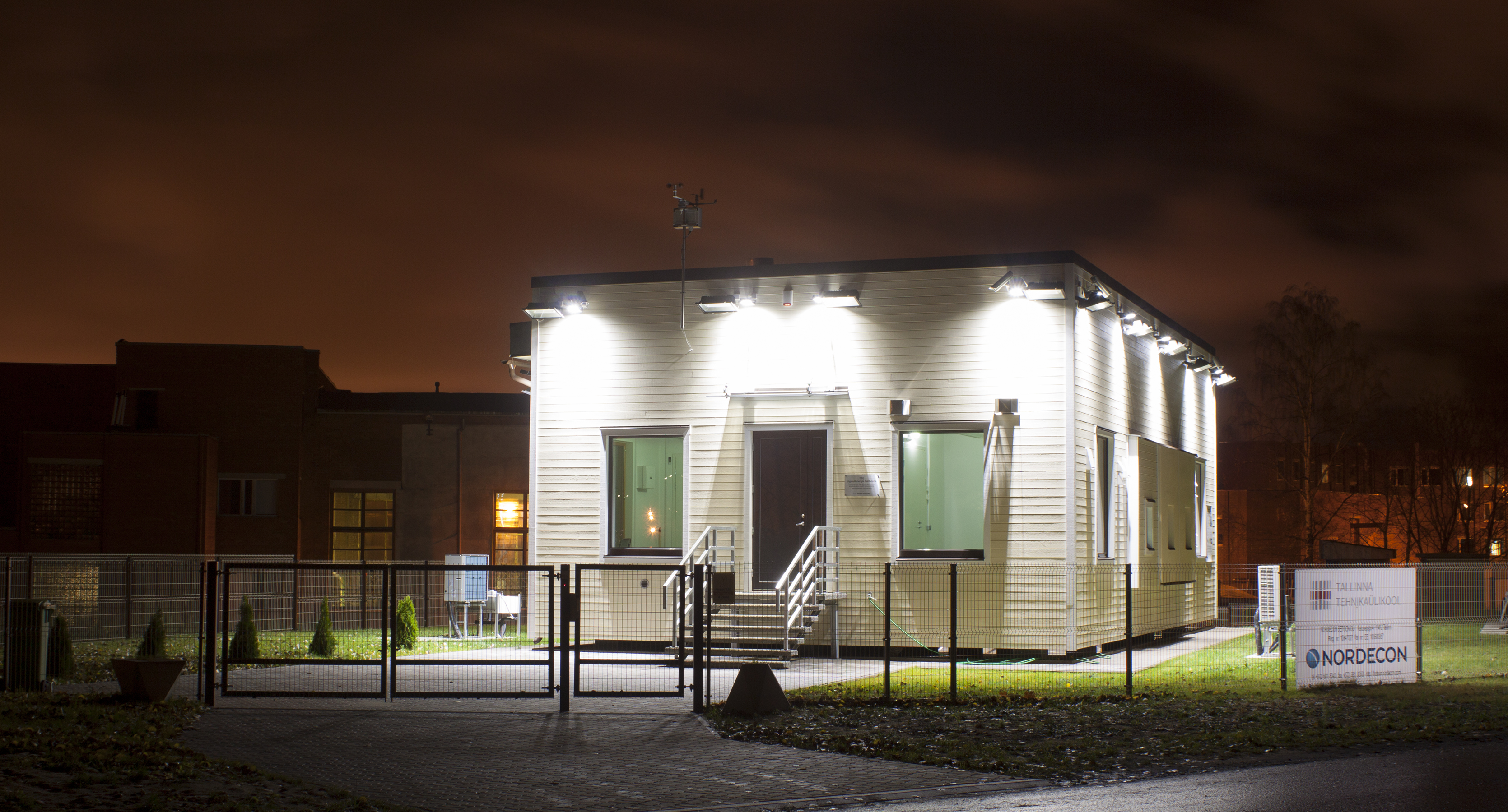 Zero-energy test building in Tallinn, Estonia. Tallinn University of Technology.